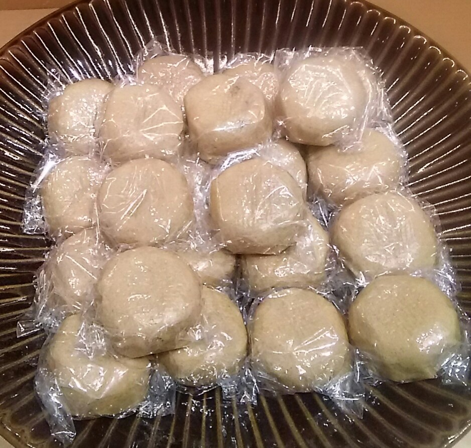 Usukawa manju(薄皮饅頭) is Fukushima's manju. Japanese three manju.